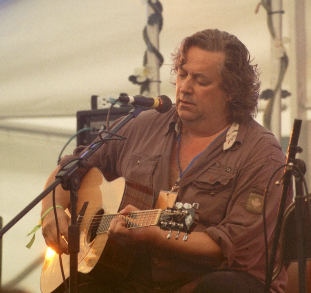 Folk singer Jackie Leven performs in the Musician Tent at the Summer Sundae 2005.